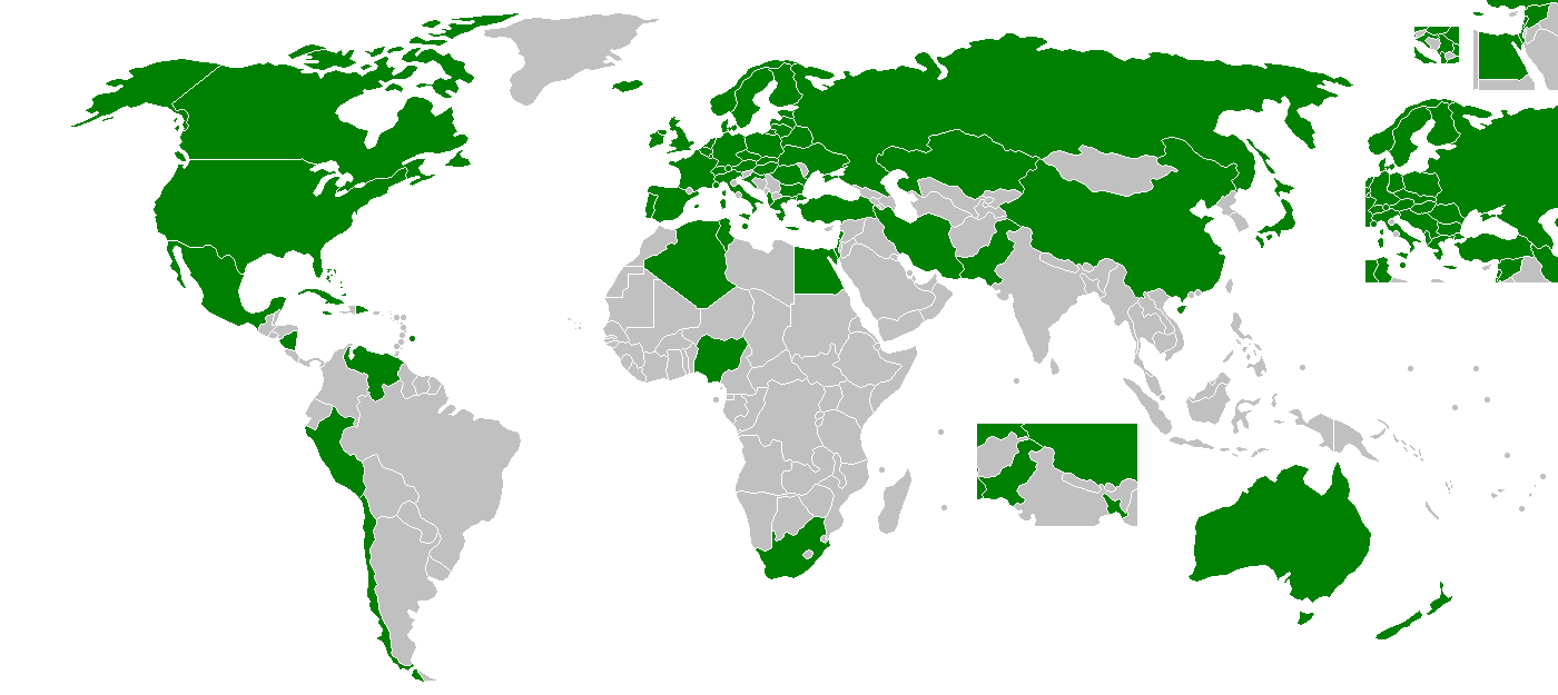 This map is show countries who participant in Sopot International Song Festival.